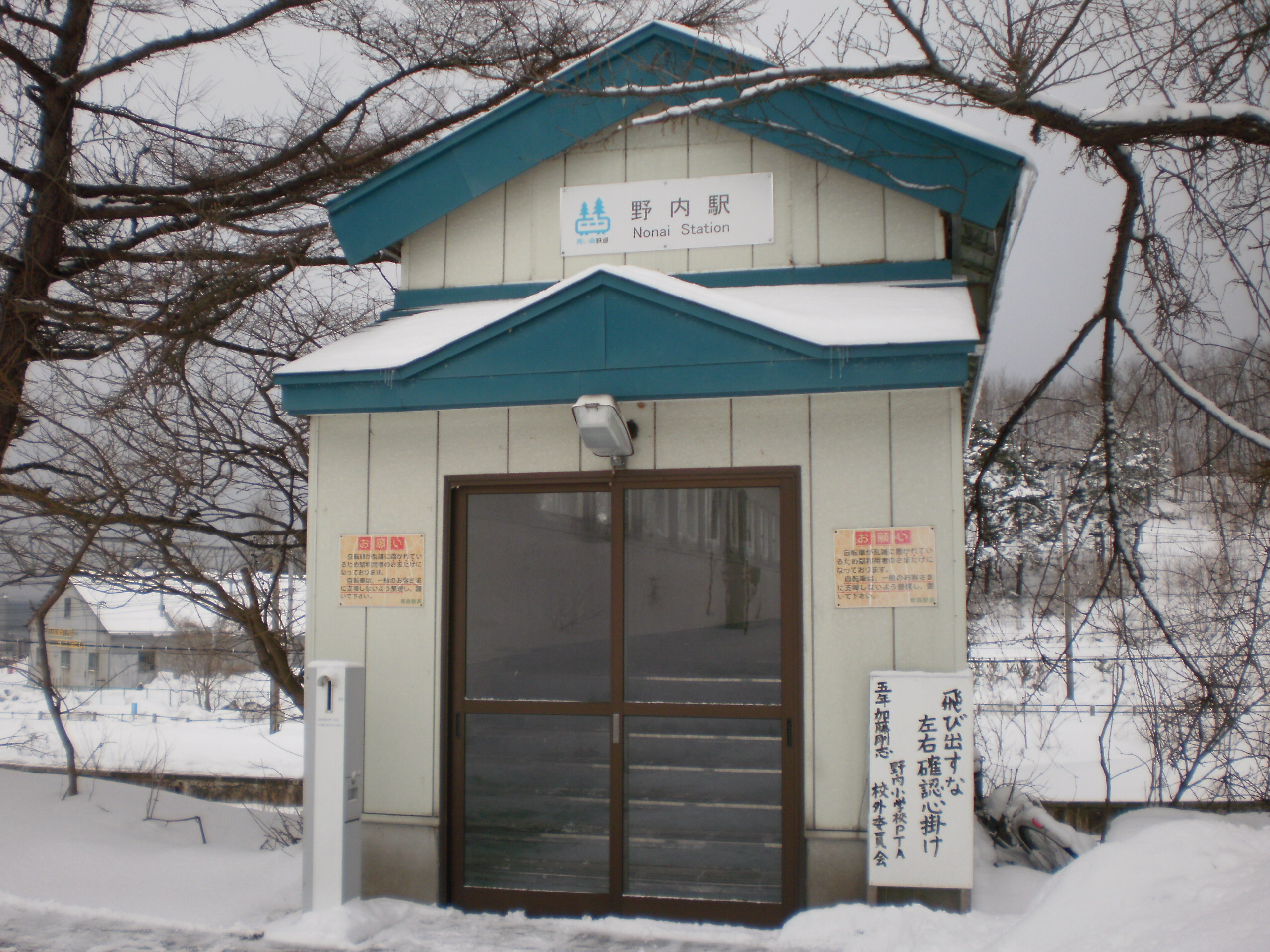 Aoimori Railway Co.,Ltd. Nonai Station